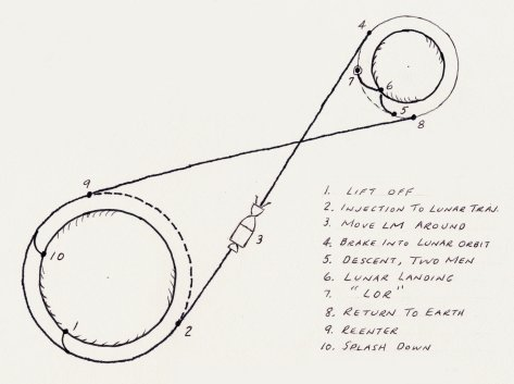 Diagram of Lunar Orbit Rendezvous